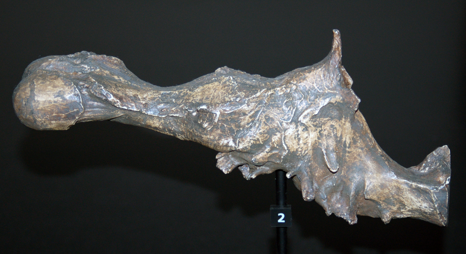 Photo: cast of a Tyrannosaurus rex braincase at the Australian Museum, Sydney.